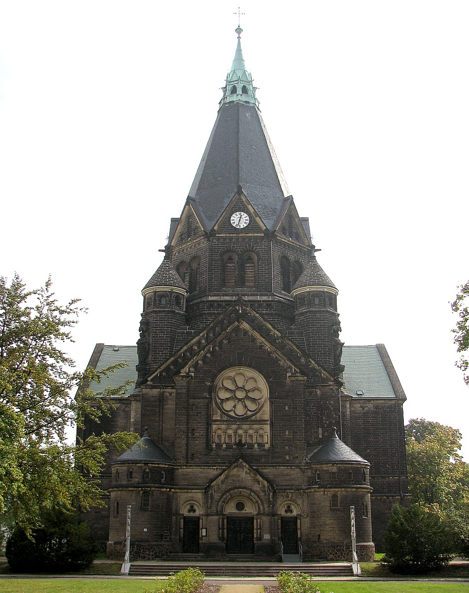 Riesa Elbe Trinitatis church 1897 profile of entrance side district Meißen Saxony photo 2008 Wolfgang Pehlemann Germany